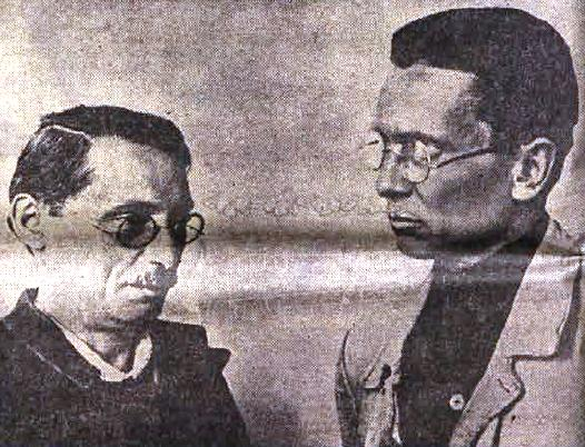 Moša Pijade and Josip Broz Tito in Lepoglava prison